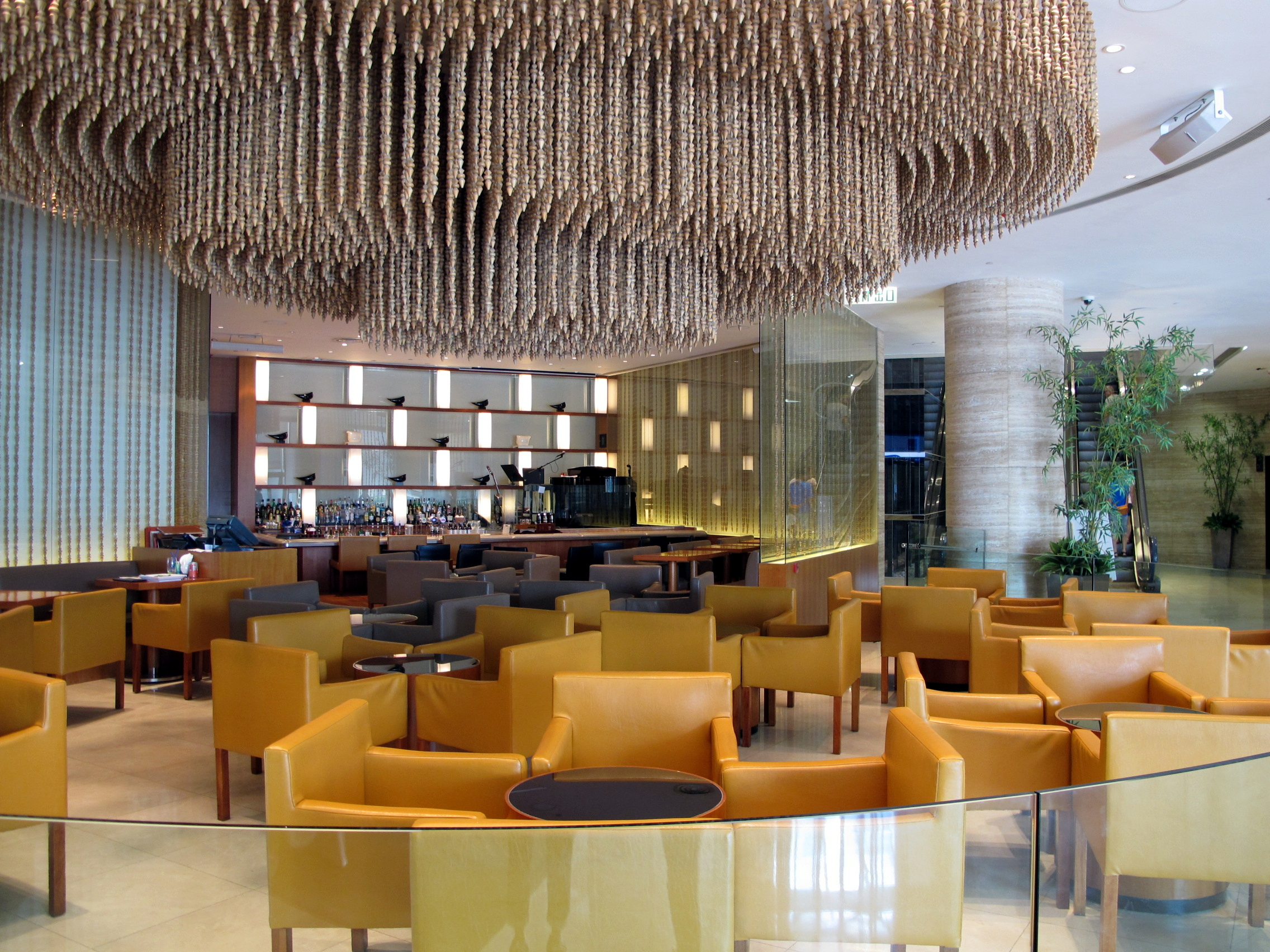 Novotel Citygate Andante